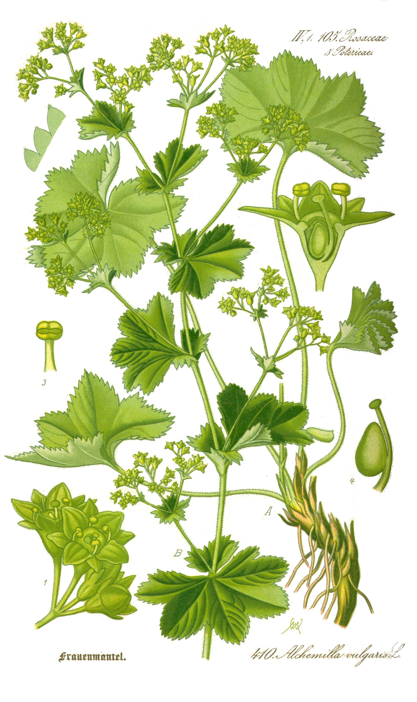 Alchemilla vulgaris, Clean version of Image:Illustration_Alchemilla_vulgaris0.jpg